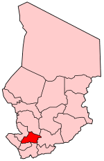 Map of Chad showing Tandjilé region.